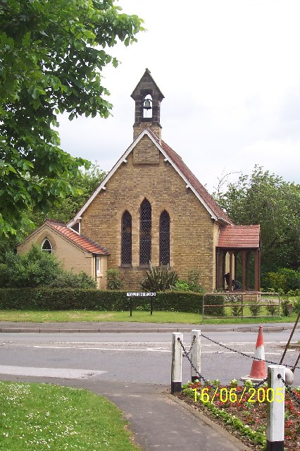 St Leonard's Church, Molescroft, East Riding of Yorkshire, England.Rather small, but well-used.